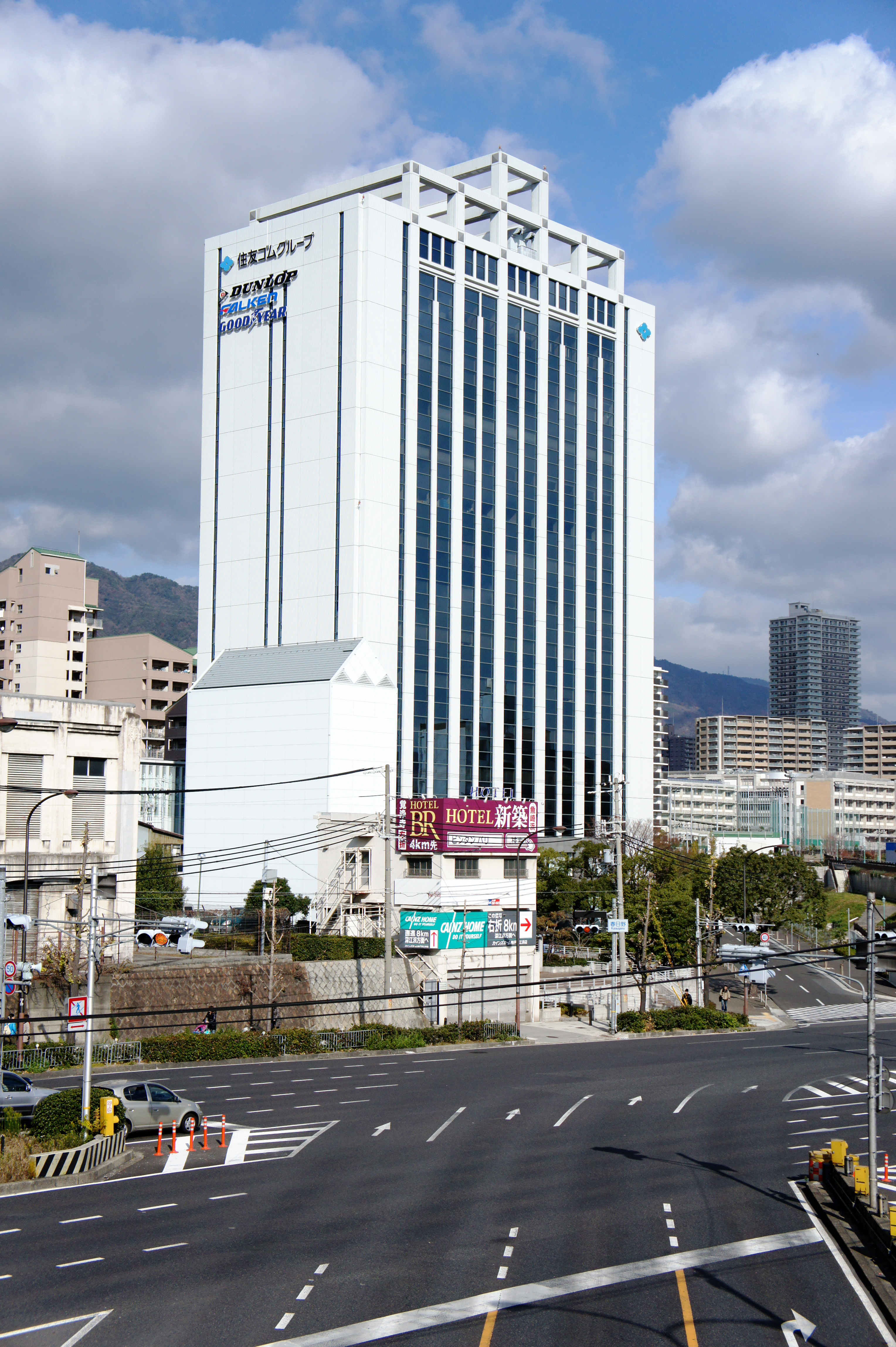 Sumitomo Rubber Industries, Ltd. headquarters building in Kobe, Hyogo prefecture, Japan